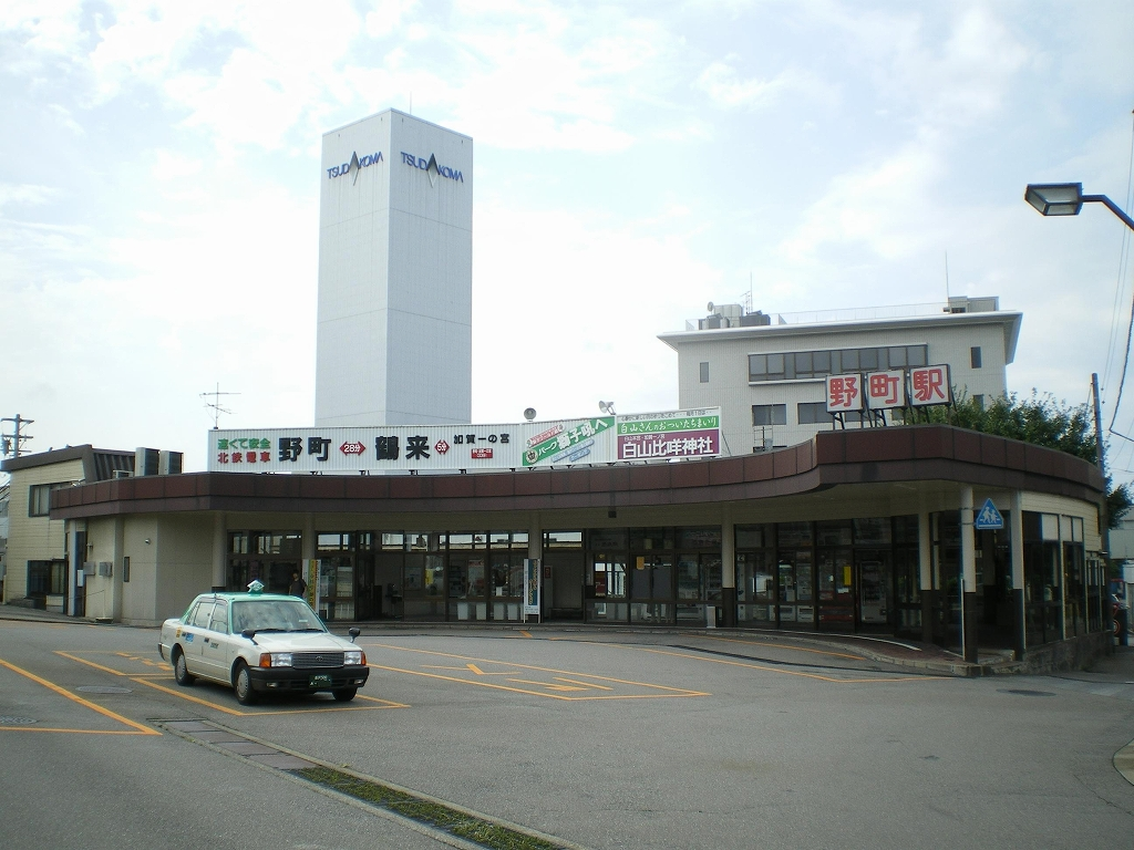 Hokuriku Railroad Ishikawa Line Nomachi Station Plaza (bus terminal)